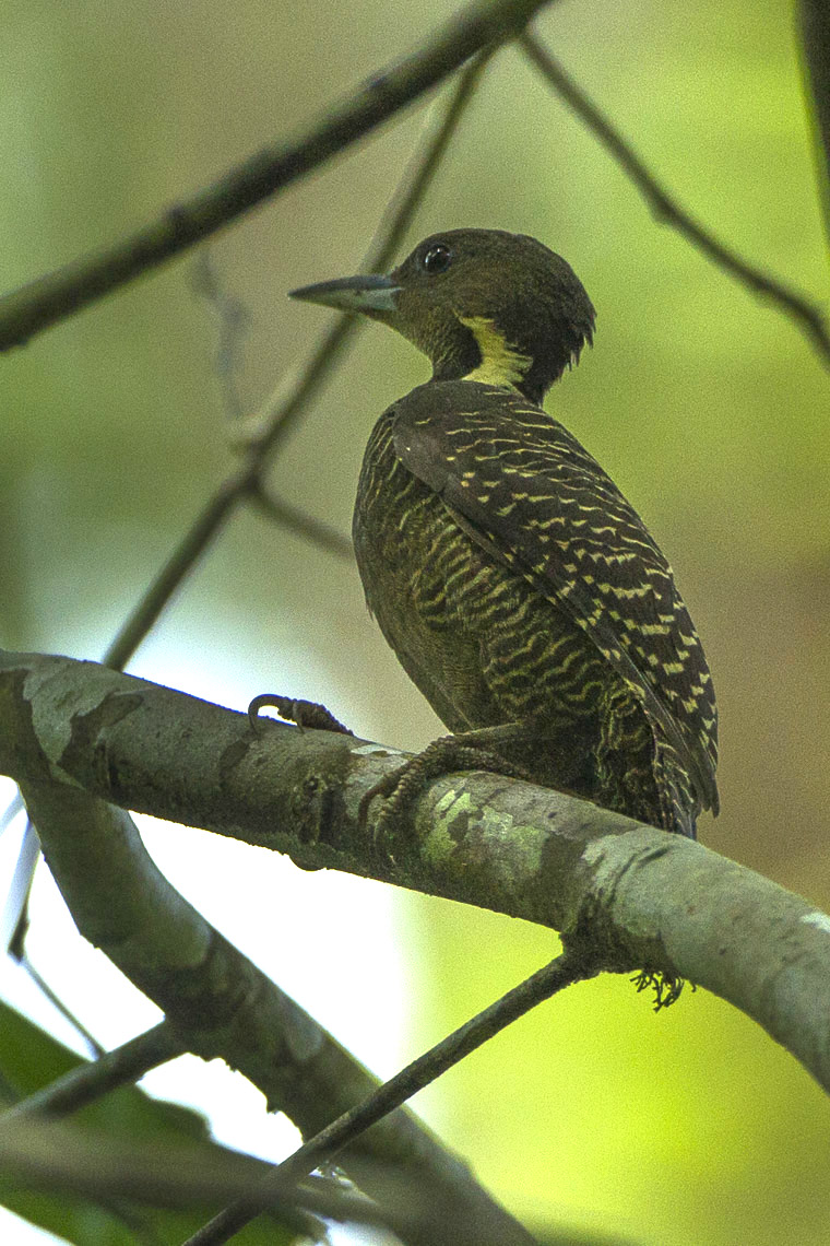 Buff-necked Woodpecker - Thailand_S4E3663